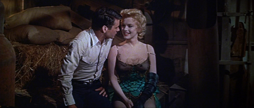 Screenshot of Don Murray and Marilyn Monroe from the trailer for the film Bus Stop